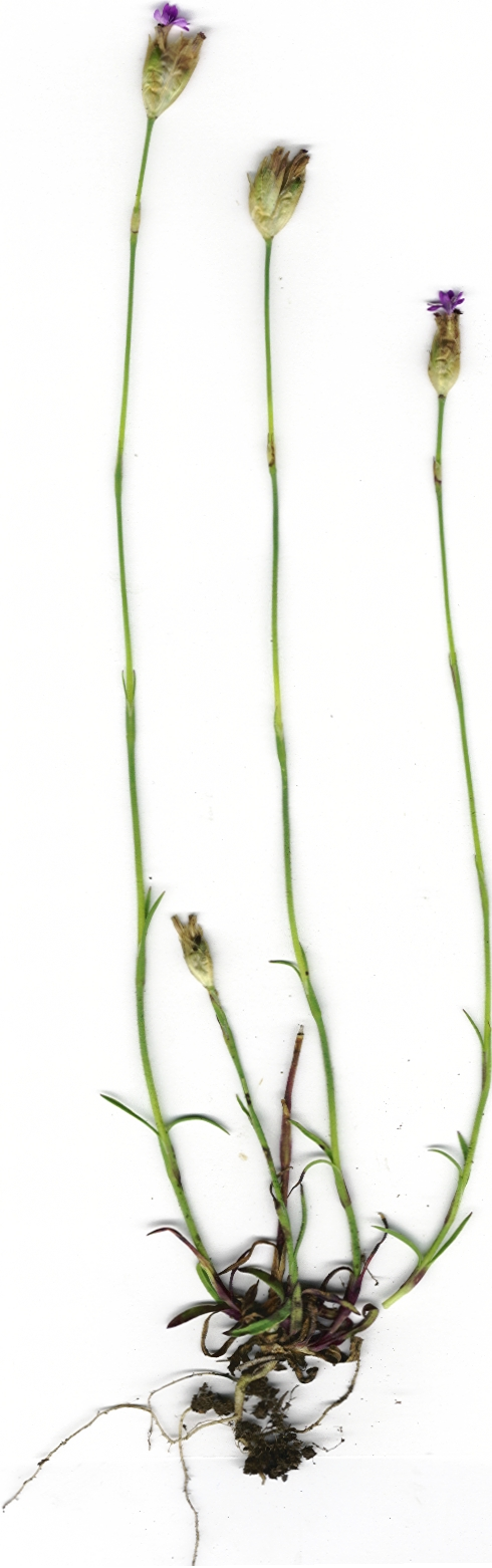 Petrorhagia velutina (plant). Location: Maui, Crater Rd